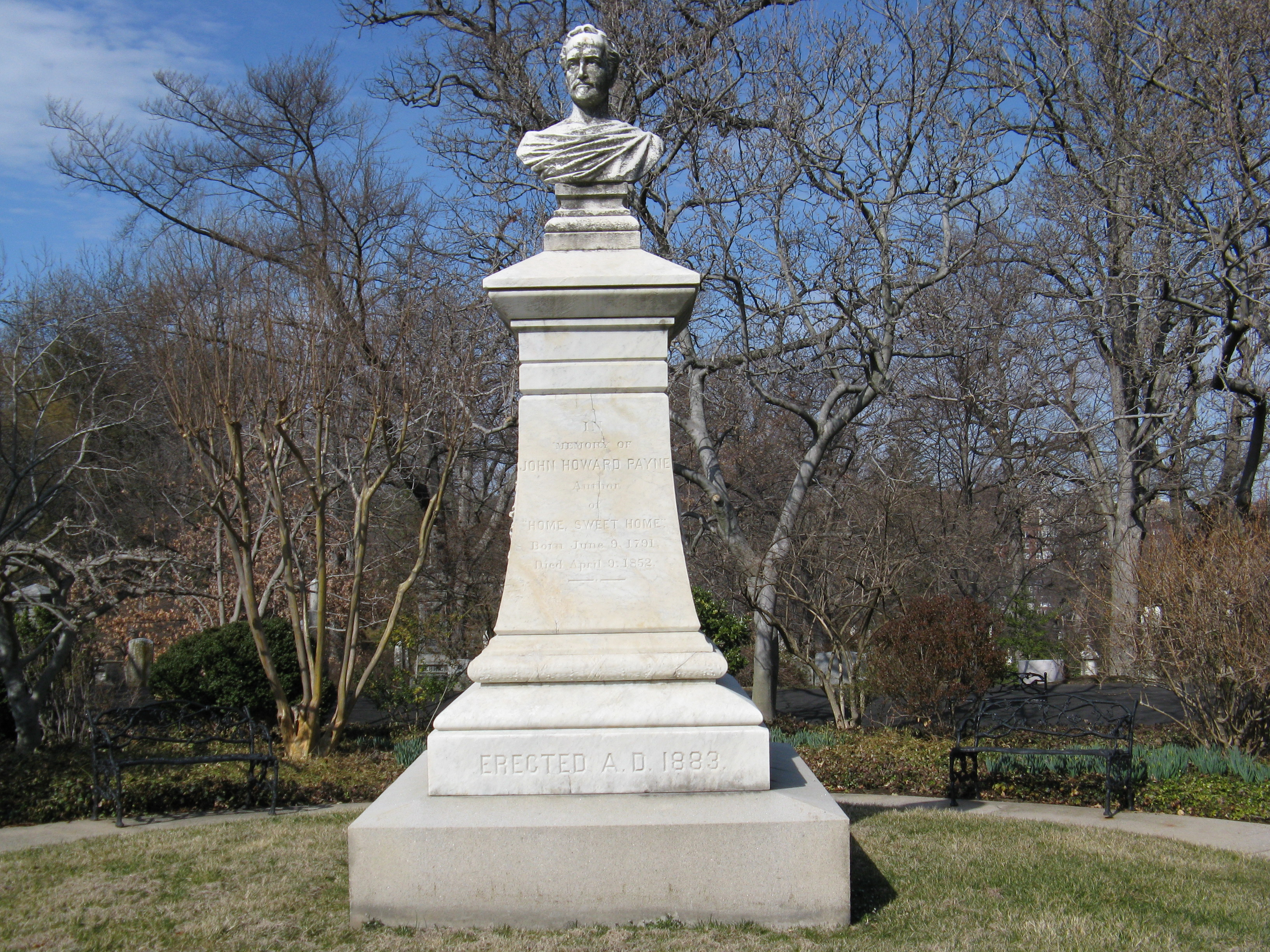 Gravestone of John Howard Payne in Oak Hill Cemetery